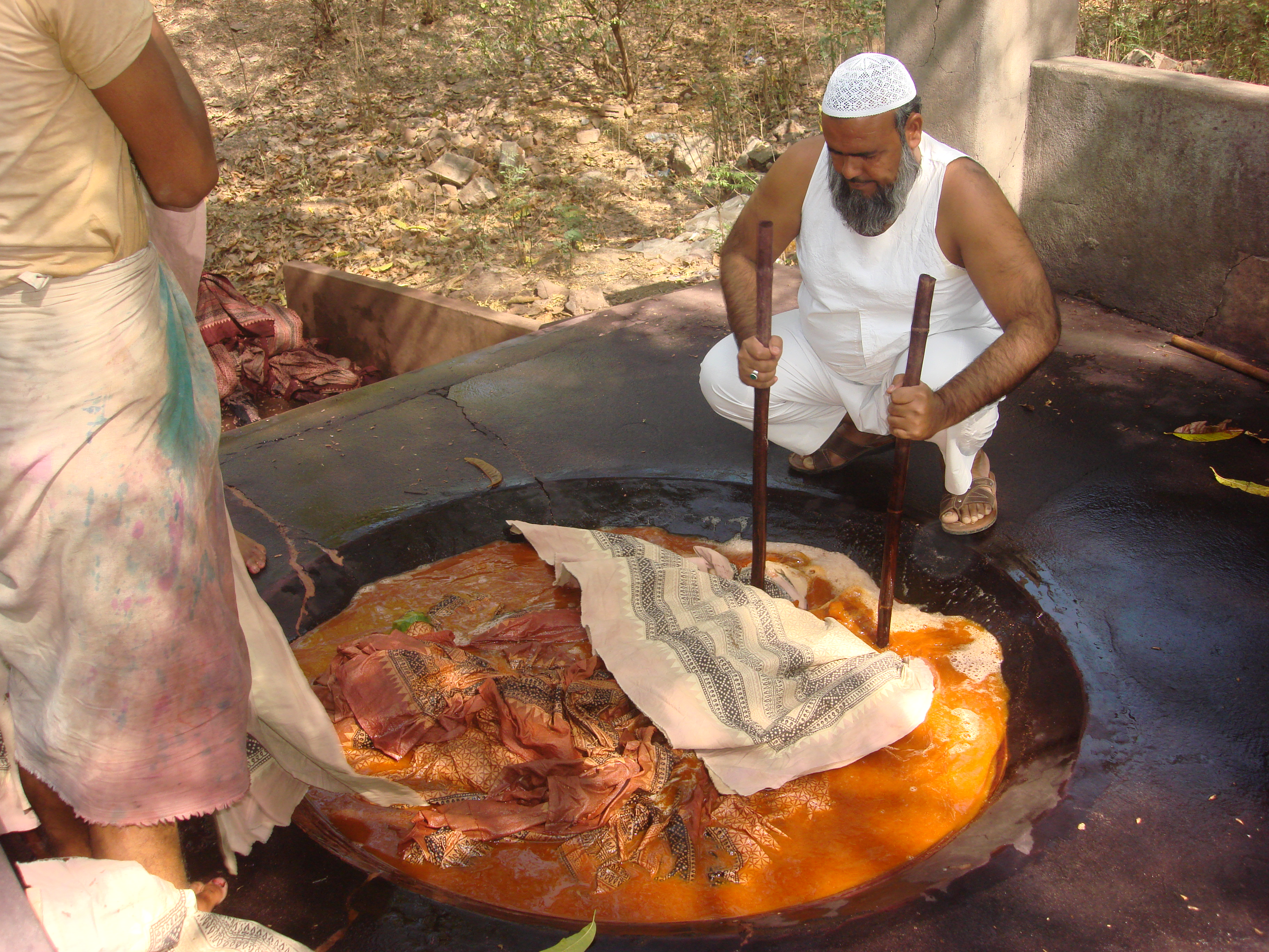 Mohammed Yusuf Khatri at work - The Bhatti Process, when Vichliya Cloth is boiled up with Root of Aal (ALIZARIN) and DHAWDI flowers in water. Cloth is boiled upto 4 hours in BHATTI and kept in it after coming color on the Cloth it is taken out from Bhatti and then washed out with clean Water in another Vessel for bringing whitness on cloth it passing through a process called Tapai